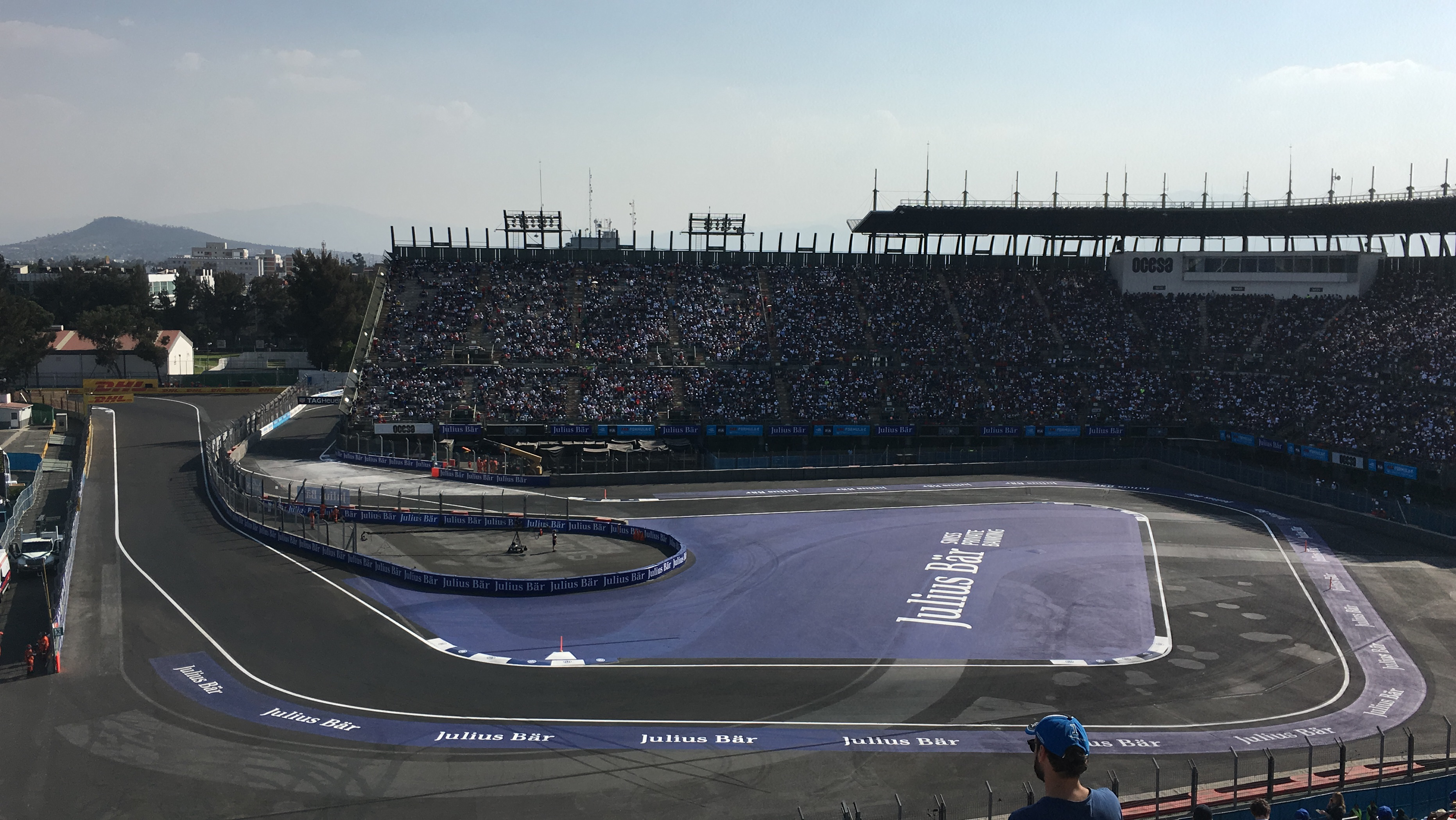 Foro Sol Norte Stand in the Formula E Mexico E-Prix 2018